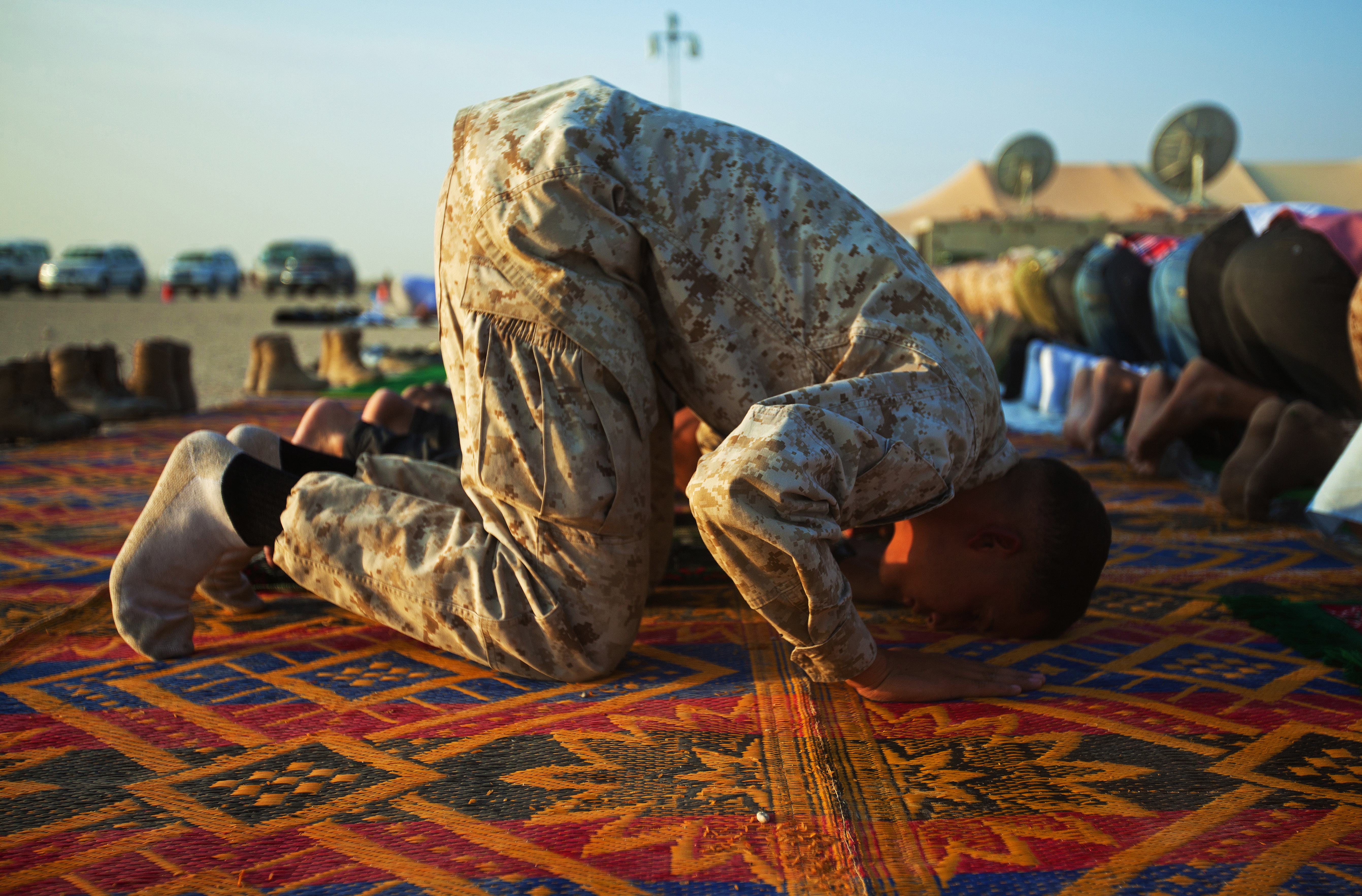 Cpl. Abdelbasset Jibbou, a towed artillery systems technician with 2nd Combat Engineer Battalion, 2nd Marine Division (Forward), and native of Ewing, N.J., prays during an Eid ul-Fitr ceremony aboard Camp Leatherneck, Helmand province, Aug. 30. Eid ul-Fitr, which marks the end of the month of Ramadan, was observed by hundreds of coalition service members and local nationals during a ceremony that included prayer and a sermon led by a Muslim chaplain.